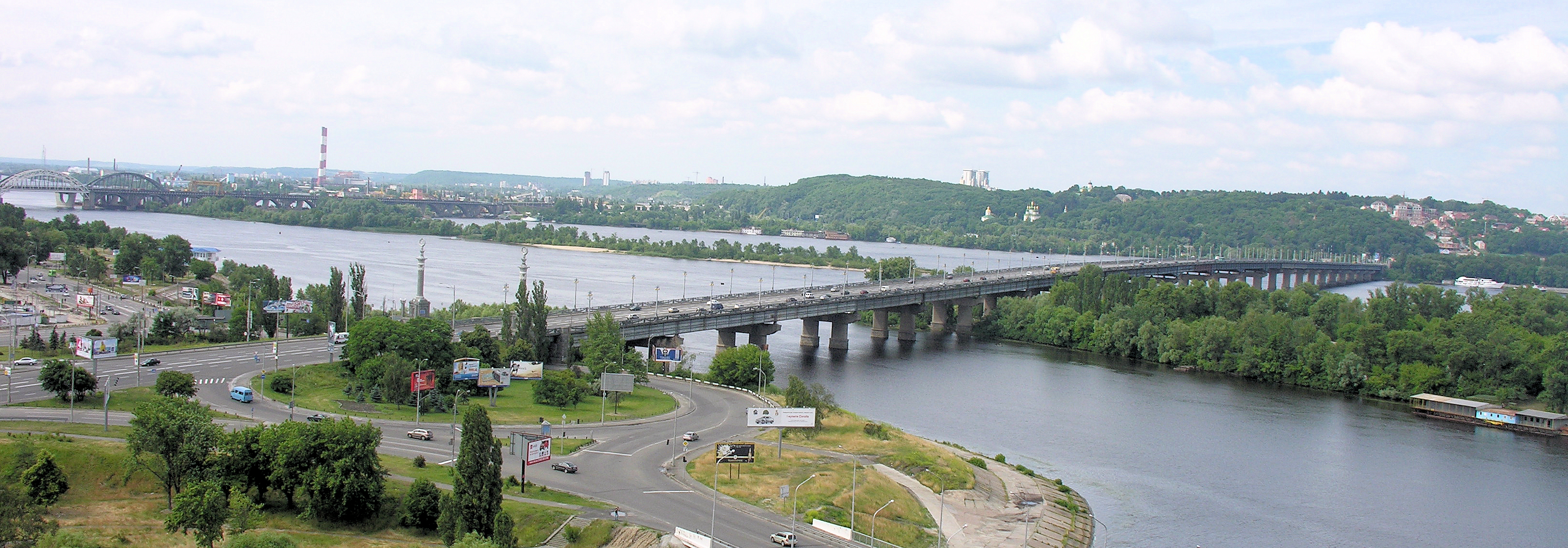 Paton's bridge in Kiev, view from the Slavutich hotel